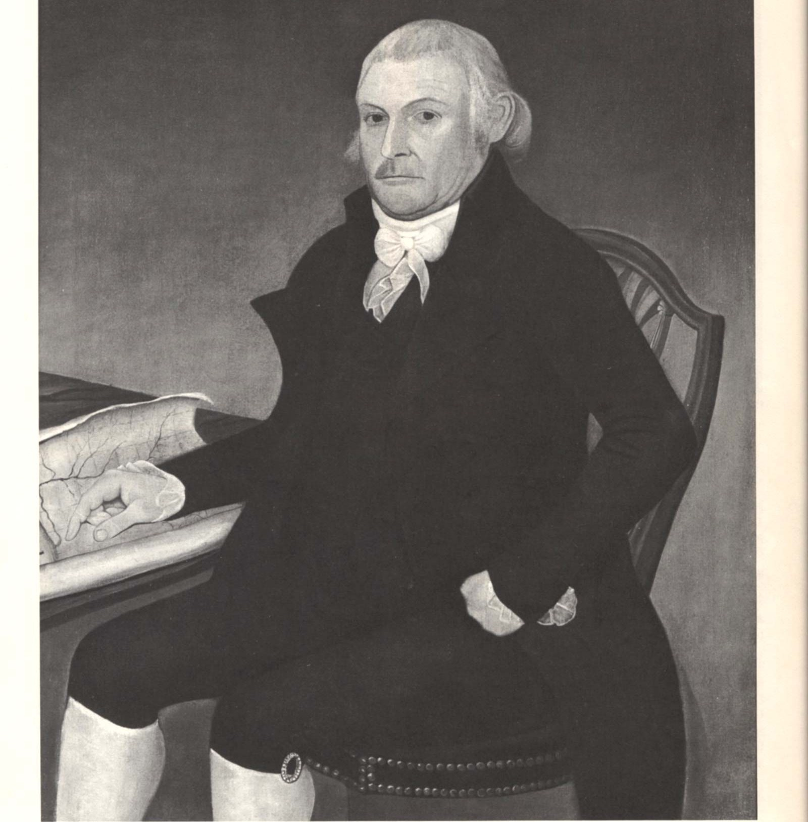 A black and white photograph of the original painting of General Henry Champion. This file was created and altered by me as my own work.